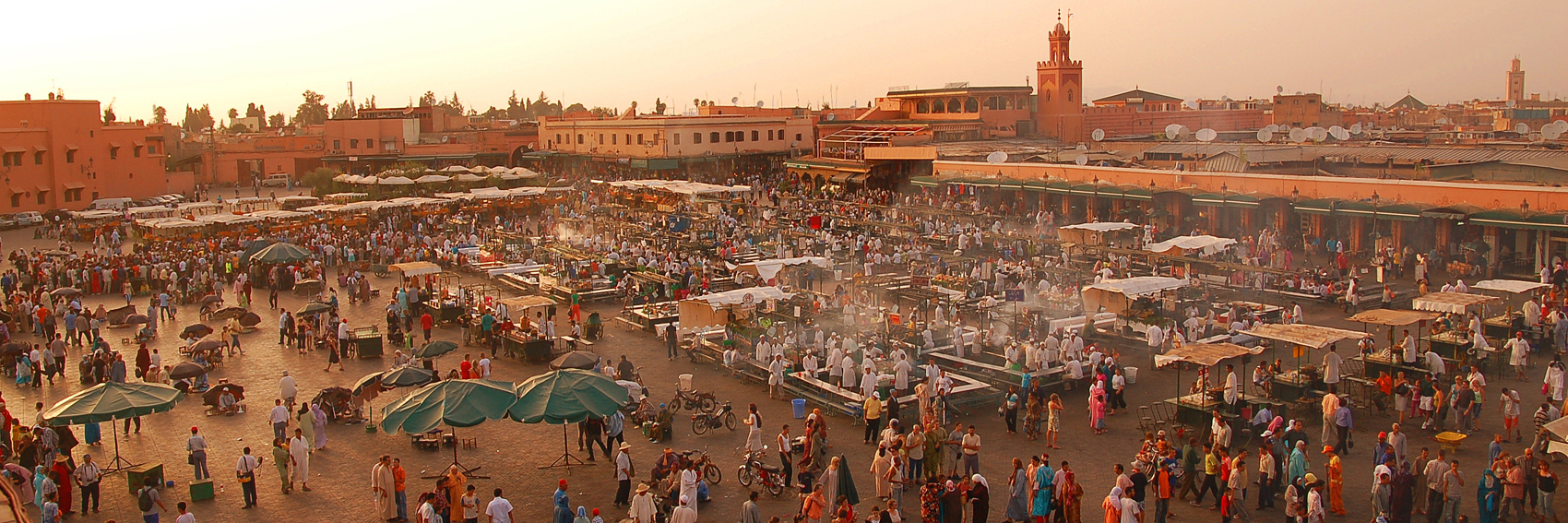 Maroc: Marrakech city, Jemaa-el-Fna market. ==